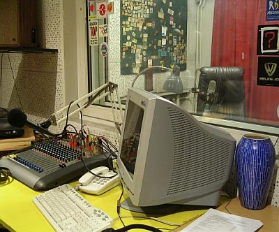 Student Radio Studio "Aegis" - operating since 1969, a student radio station of the University of Silesia, established in the campus in Katowice-Ligota. You can listen on the internet and on campus in Katowice-Ligota through speakers broadcasting systems.